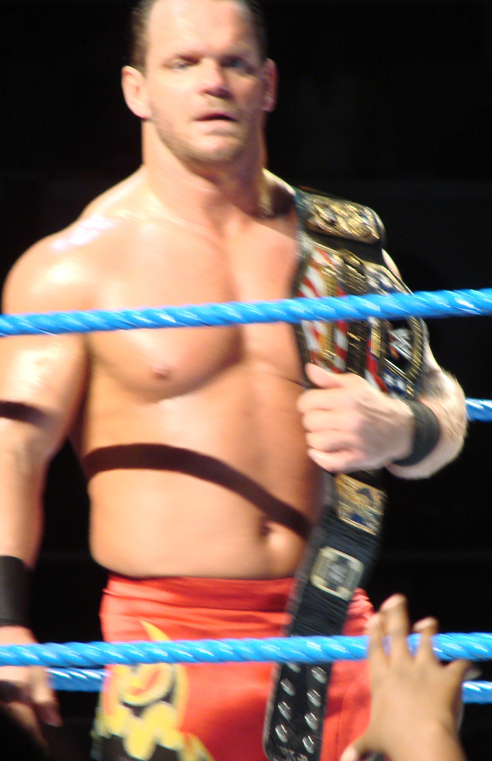 Chris Benoit as WWE United States Champion on February 4en:2007 in Champaign, IL.